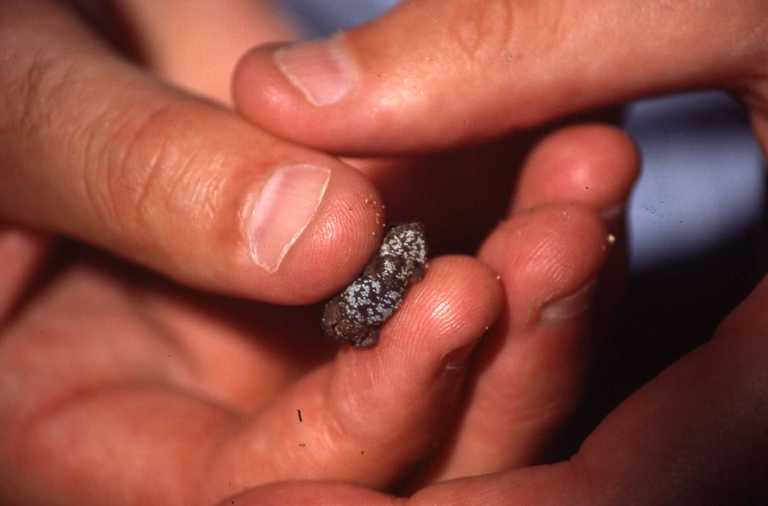 Mertensophryne micranotis at Gedi Ruins, Kenya